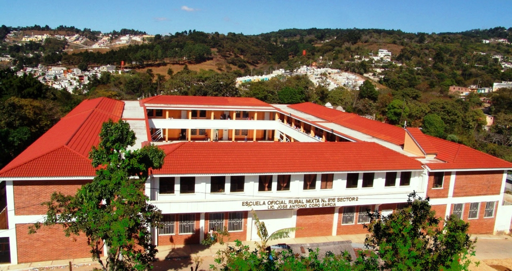 Escuela Oficial Rural Mixta No. 816 Sector 2, Lic. José Antonio Coro García